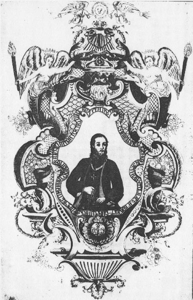 Mojsej Putnik, Serbian Orthodox bishop of Bačka. Frontispiece from the book Поздрав Мојсеју Путнику [Festive greeting to Mojsej Putnik], Wroclaw University Library (IV fol. 88 s.), pen and ink drawing by Orfelin.